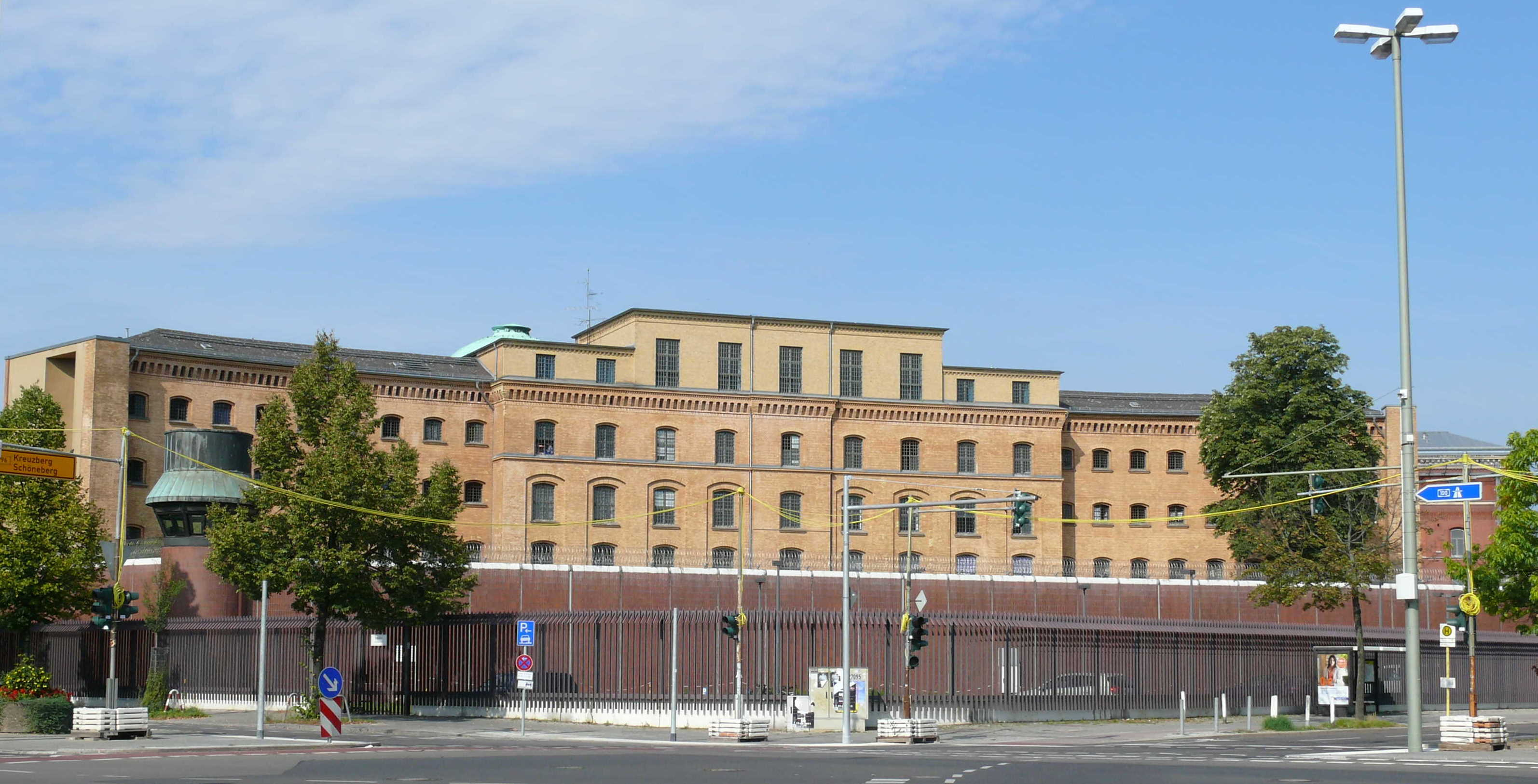 Berlin-Moabit remand center (Unteruchungshaftanstalt) Moabit